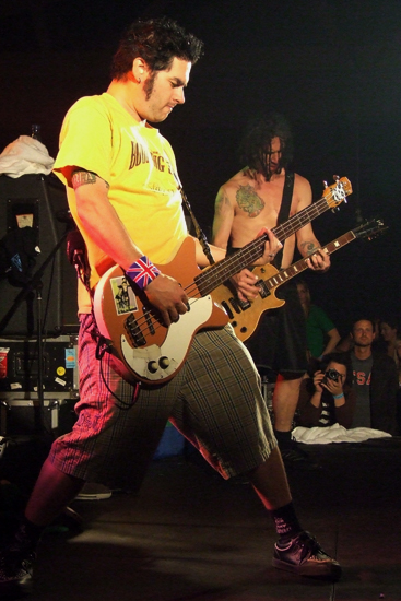 Fat Mike performing with NOFX in Cape Town, South Africa